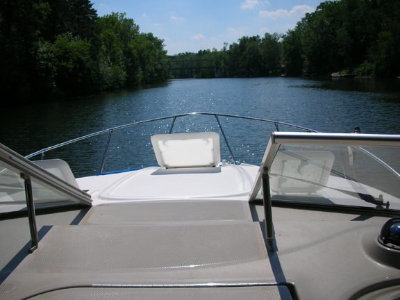 Boating on the Erie Canal